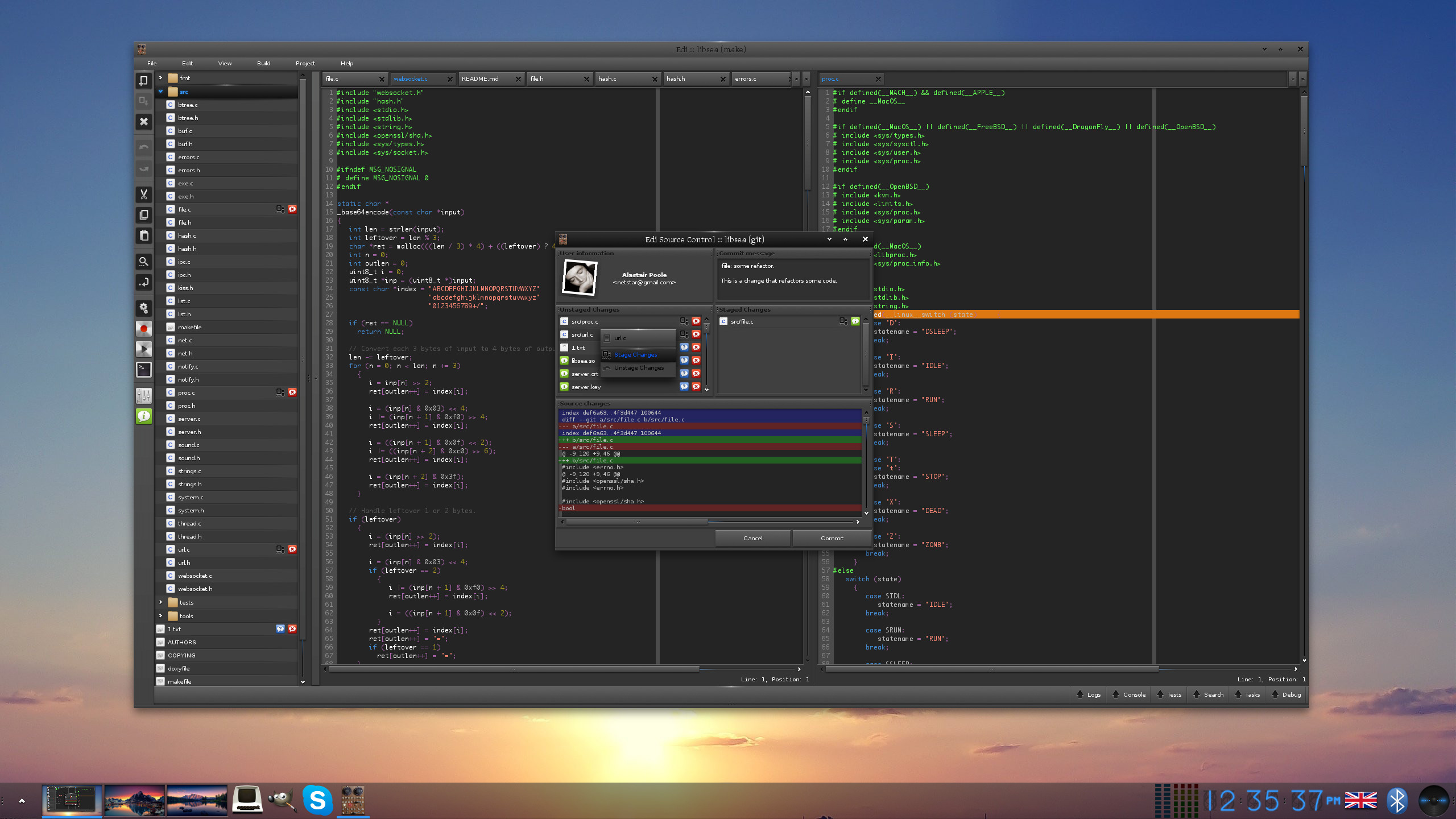 A screenshot of Edi (software)